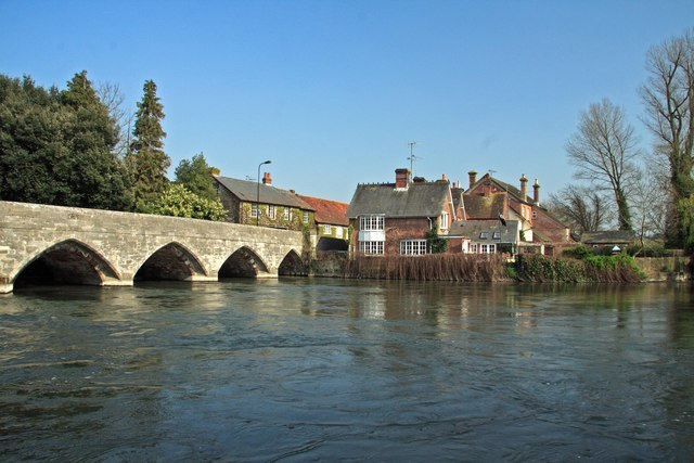 River crossing over River Avon, Fordingbridge